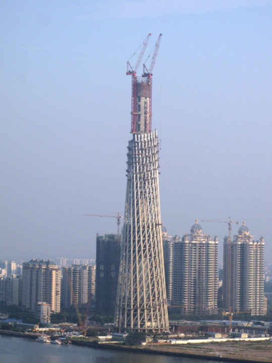 Hyperboloid Shuckhov Tower in Guangzhou during construction